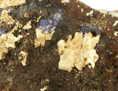 Iodargyrite, Azurite Locality: Broken Hill, Yancowinna County, New South Wales, Australia (Locality at ) Size: 8.2 x 4.4 x 2.3 cm. Iodargyrite is one of the relatively rare silver iodine halides for which the renowned Broken Hill deposit is justifiably famous. Waxy, translucent, tan iodargyrite crystals in clusters or as isolated crystals richly and attractively cover the sculptural, hefty, banded, gossan matrix. The piece is beautifully accented by small areas of bright, azure-blue azurite. Classic, older combination material from this world-class locality.